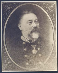 Lovrenc Košir, also Laurenz Koschier (29 July 1804 in Spodnja Luša, Carniola, Habsburg Monarchy (now Slovenia) — 7 August 1879 in Vienna) was an Slovenian civil servant who worked in Ljubljana. Besides Rowland Hill and James Chalmers, he is said to be the inventor of the postage stamp.